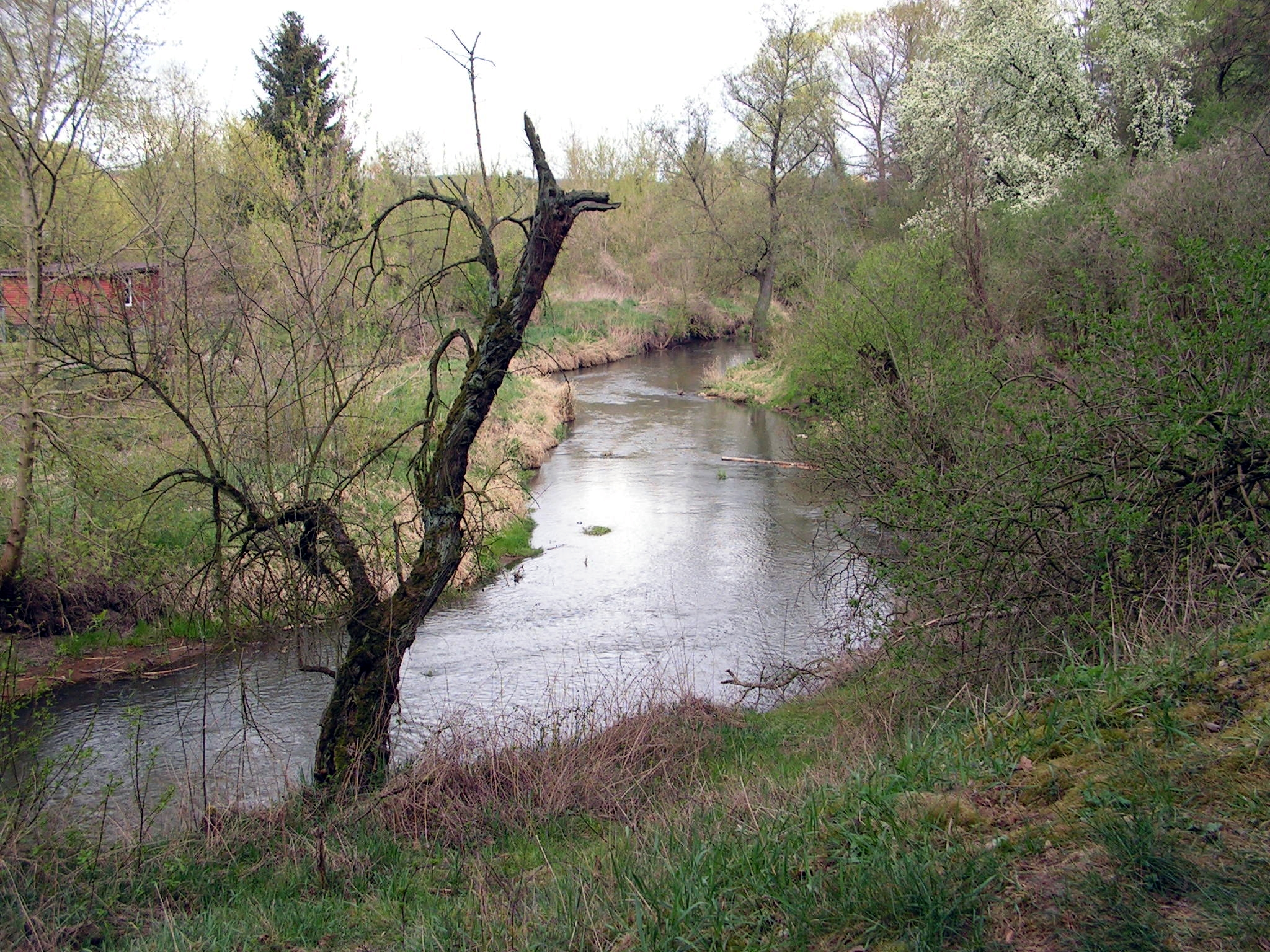 Zgłowiączka river on the area of Świech settlement in Włocławek.